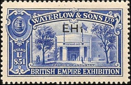 A promotional stamp produced by Waterlow & Sons for their stand at the Postman's Gate at the British Empire Exhibition.